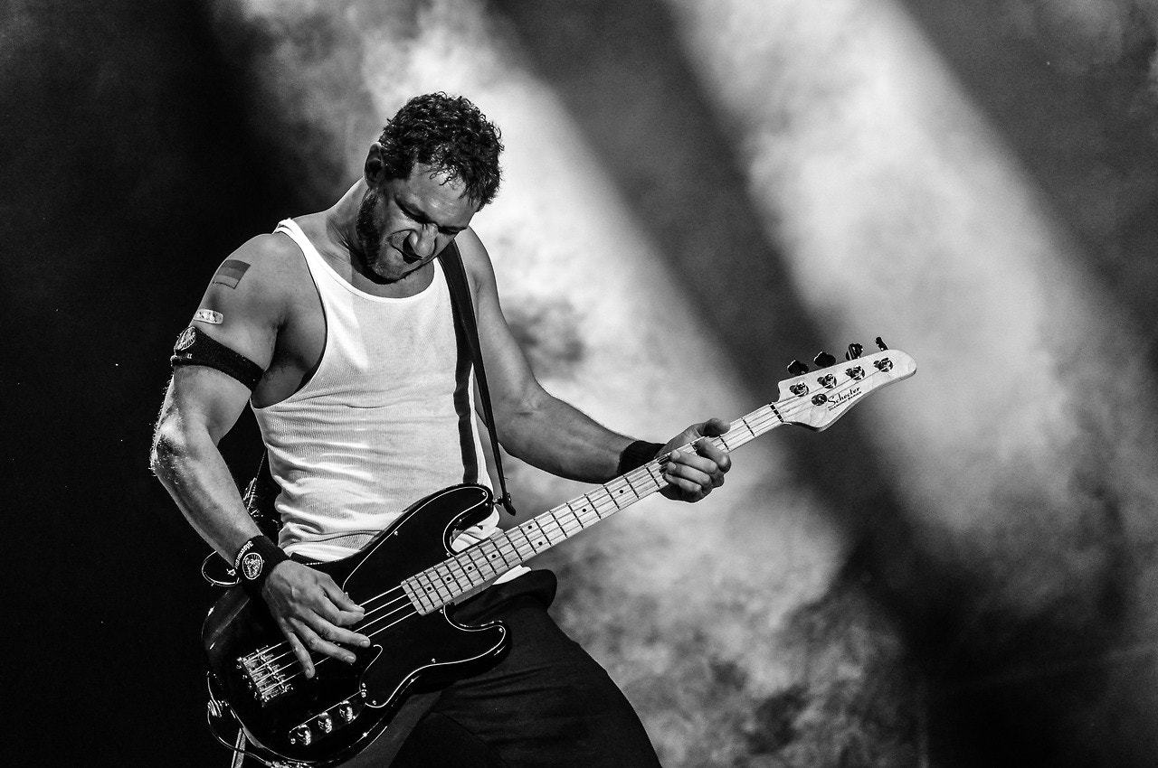 500px provided description: Evil Jared from The Bloodhound Gang @?Greenville Festival 2013 [#rock ,#concert ,#music ,#scream ,#indie ,#festival ,#bloodhound gang ,#loud ,#greenville ,#evil jared]